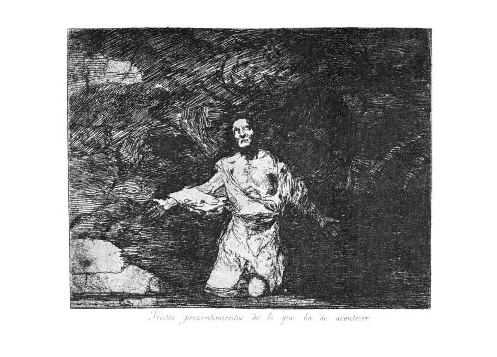 Los Desatres de la Guerra is a set of 80 aquatint prints created by Francisco Goya in the 1810s. Plate 1: Tristes presentimientos de lo que ha de acontecer. (Sad presentiments of what must come to pass.)